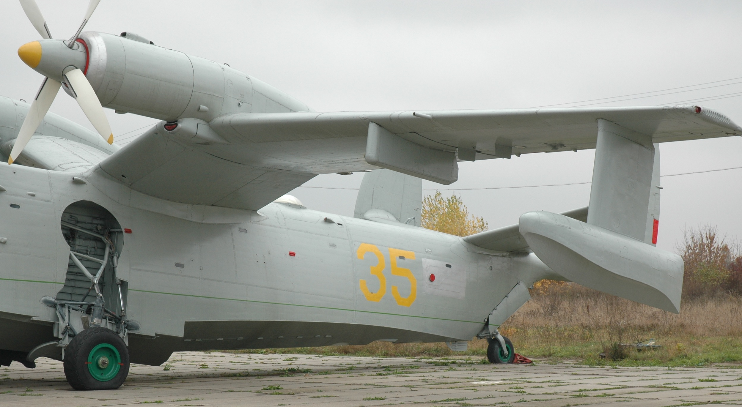 Beriev Be-12 amphibious anti-submarine and maritime patrol aircraft, displayed at the Ukrainian State Aviation Museum, Kyiv